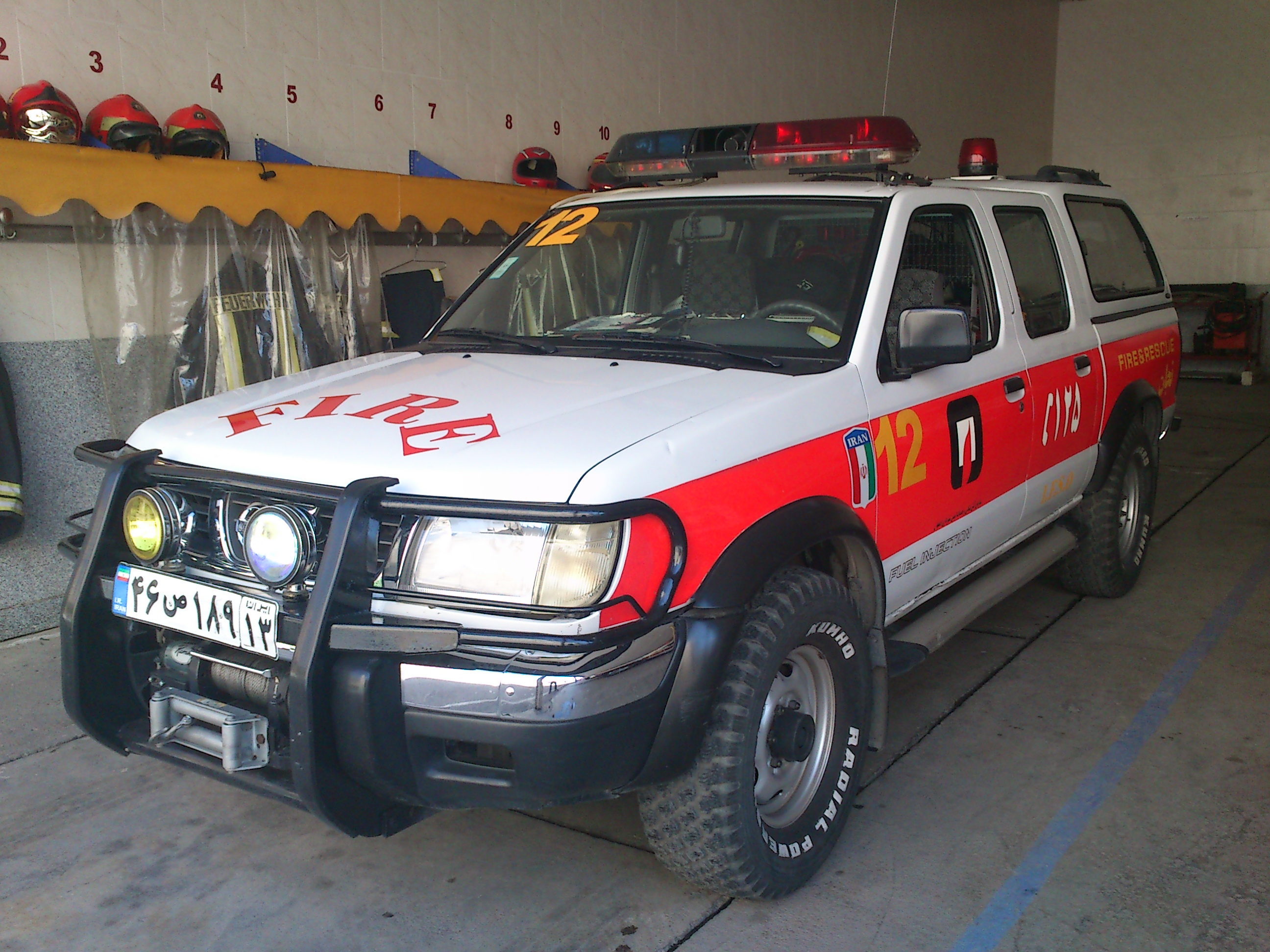 iran nissan pickup nejat